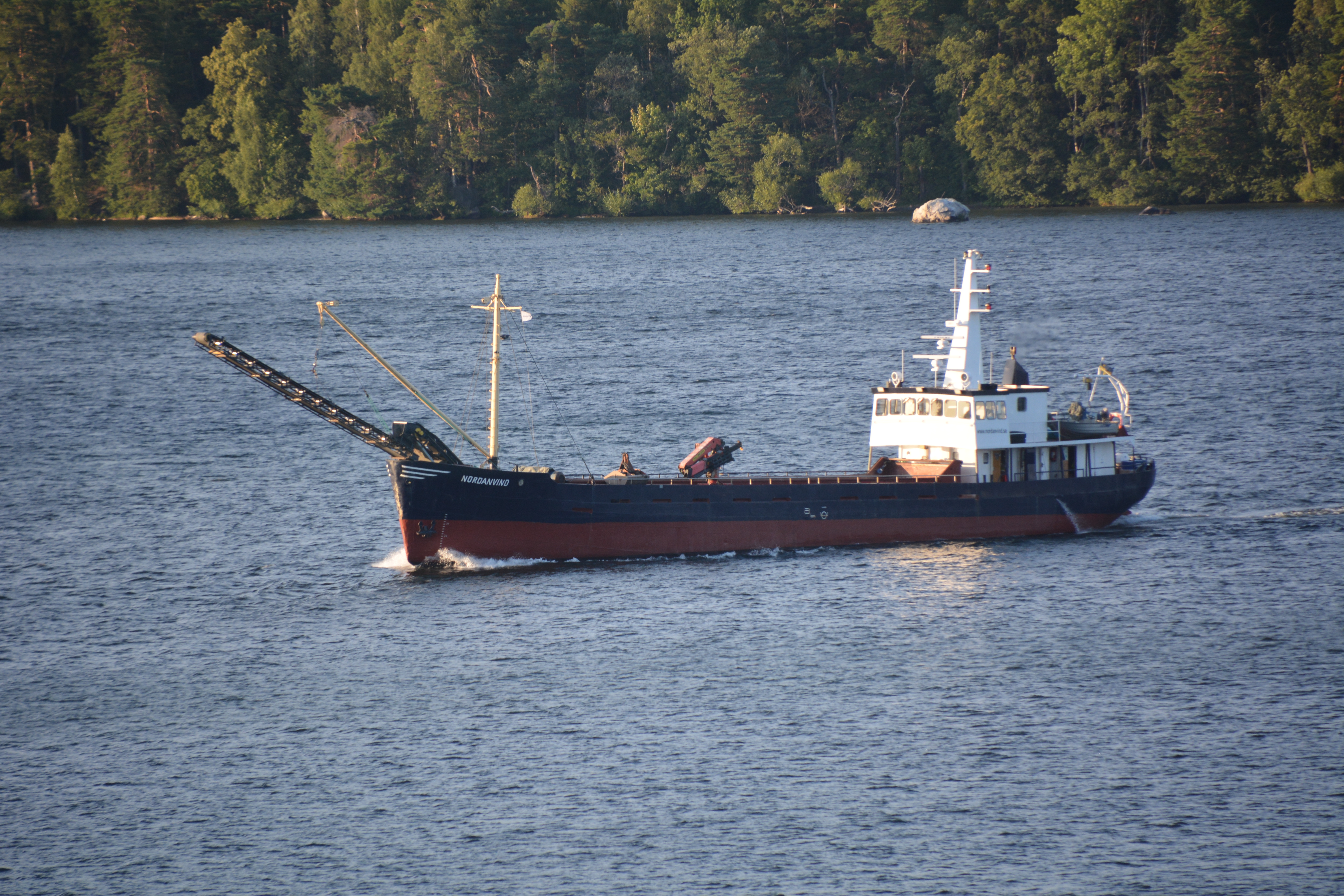 M/S Nordanvind